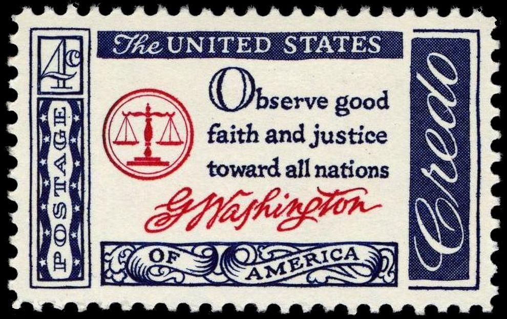 image of US Postage stamp depicting credo, of George Washington